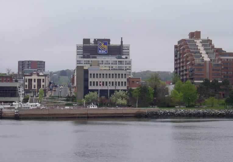 downtown Dartmouth (June 2 2007)